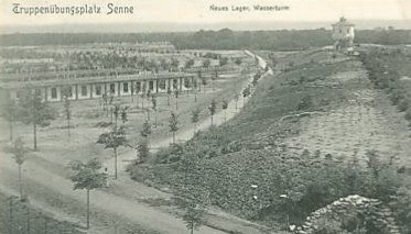 Sennelager Training Area near Paderborn, Germany, 1906